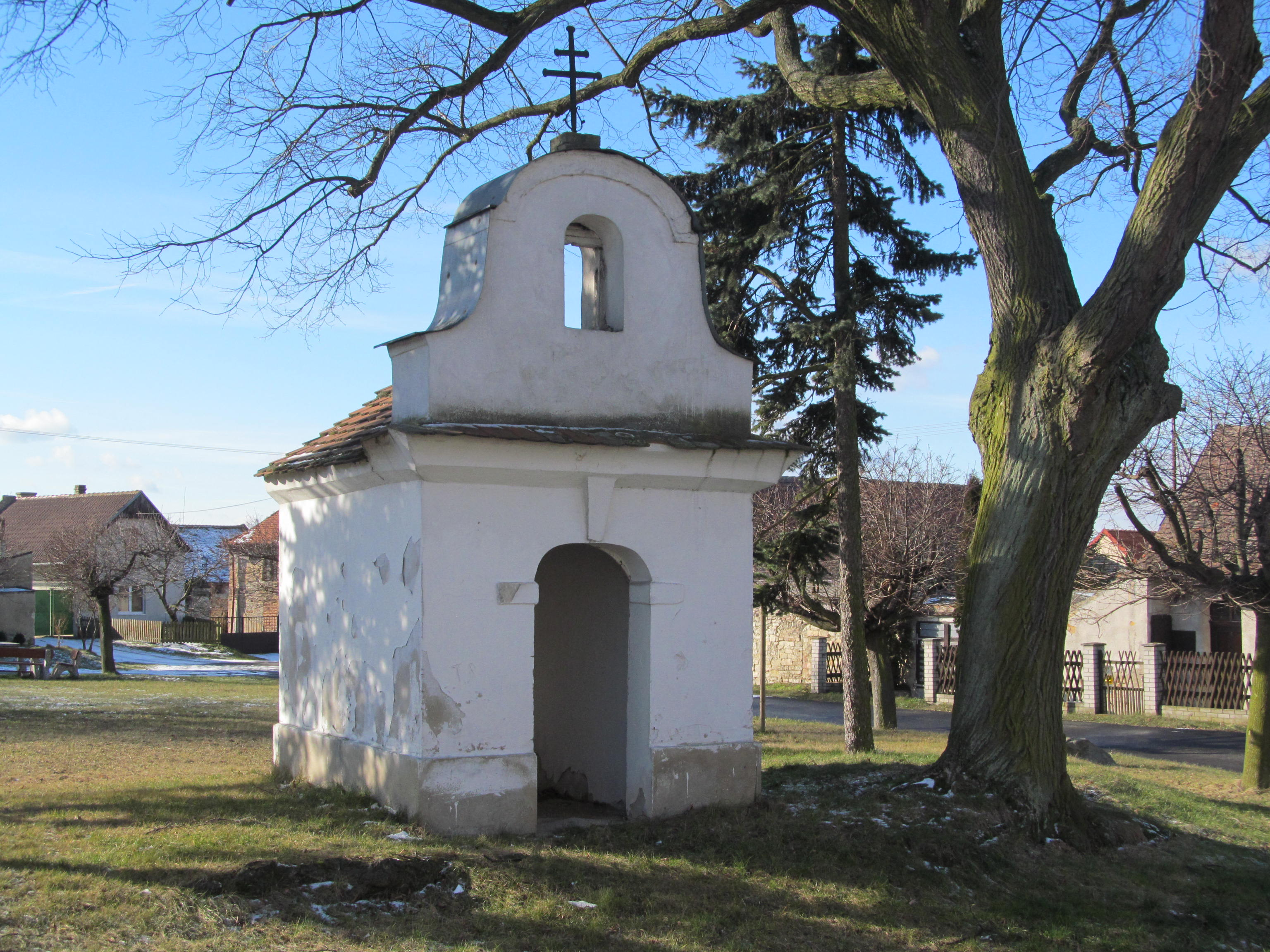 Chapel from 19th century in the village square in Bedřichovice